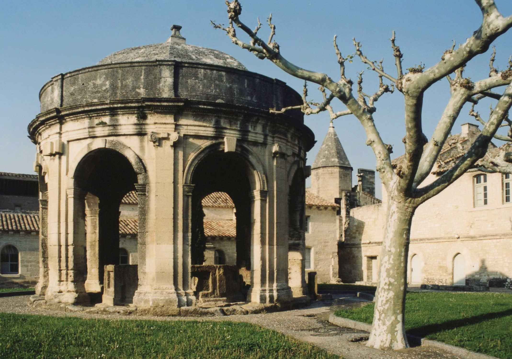 Chartreuse du Val de Bénédiction, Villeneuve-lès-Avignon (Gard department, France).